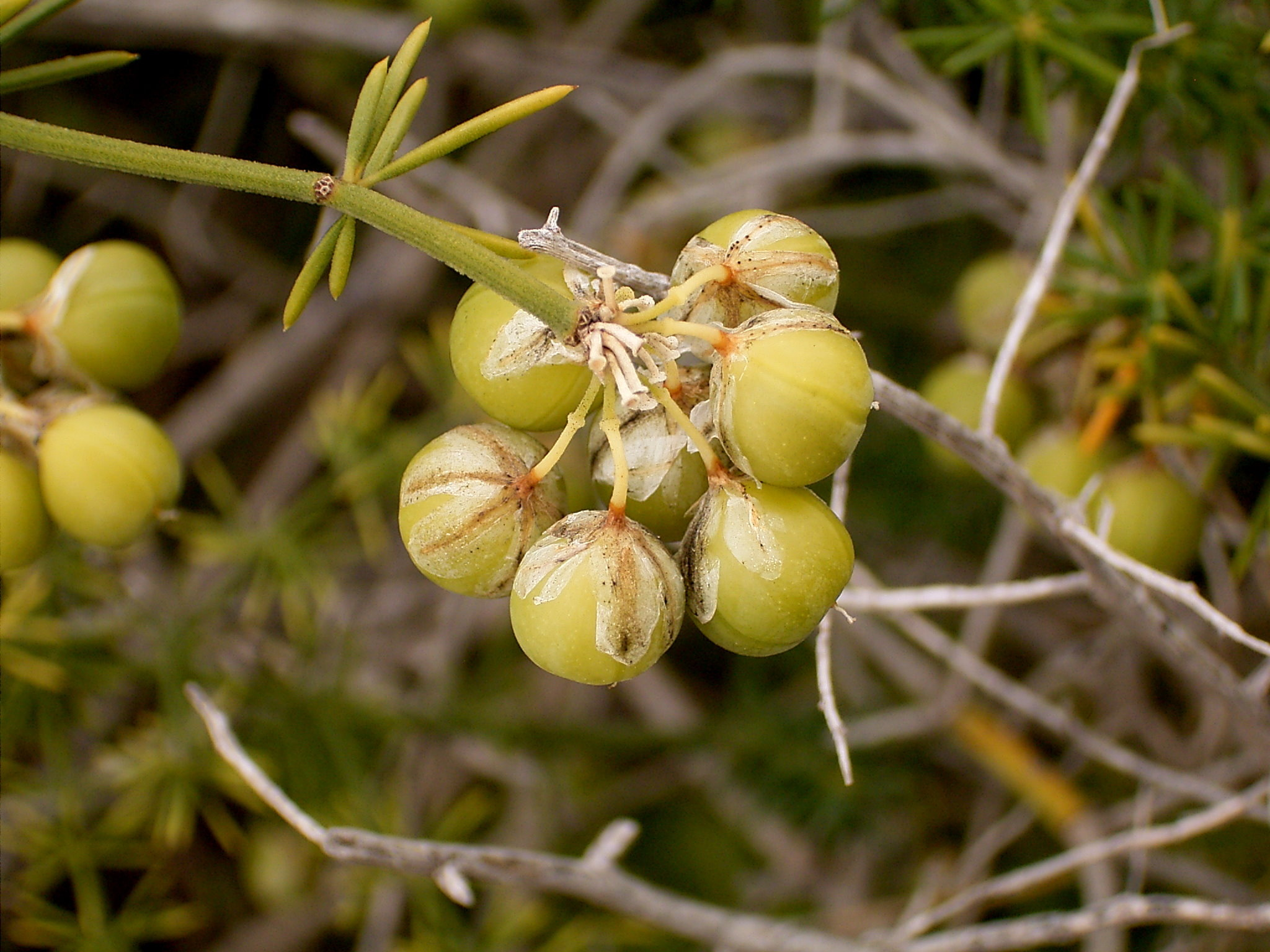 Asparagus umbellatus growing in La Fajana, Barlovento, La Palma, Canary Islands